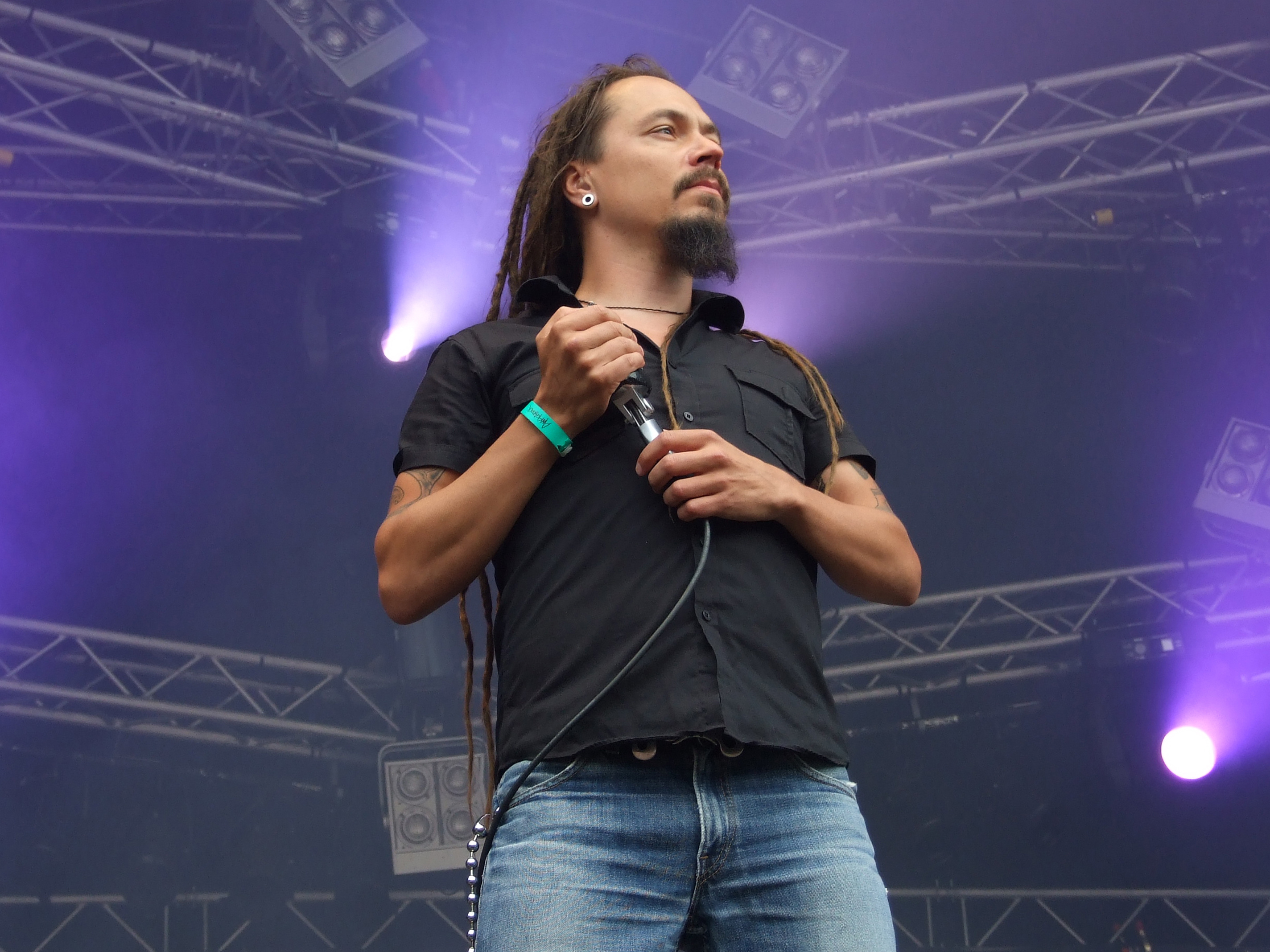 Tomi Joutsen performing live with Amorphis at Ankkarock 2008 in Vantaa, Finland. Photo: Tina Solda